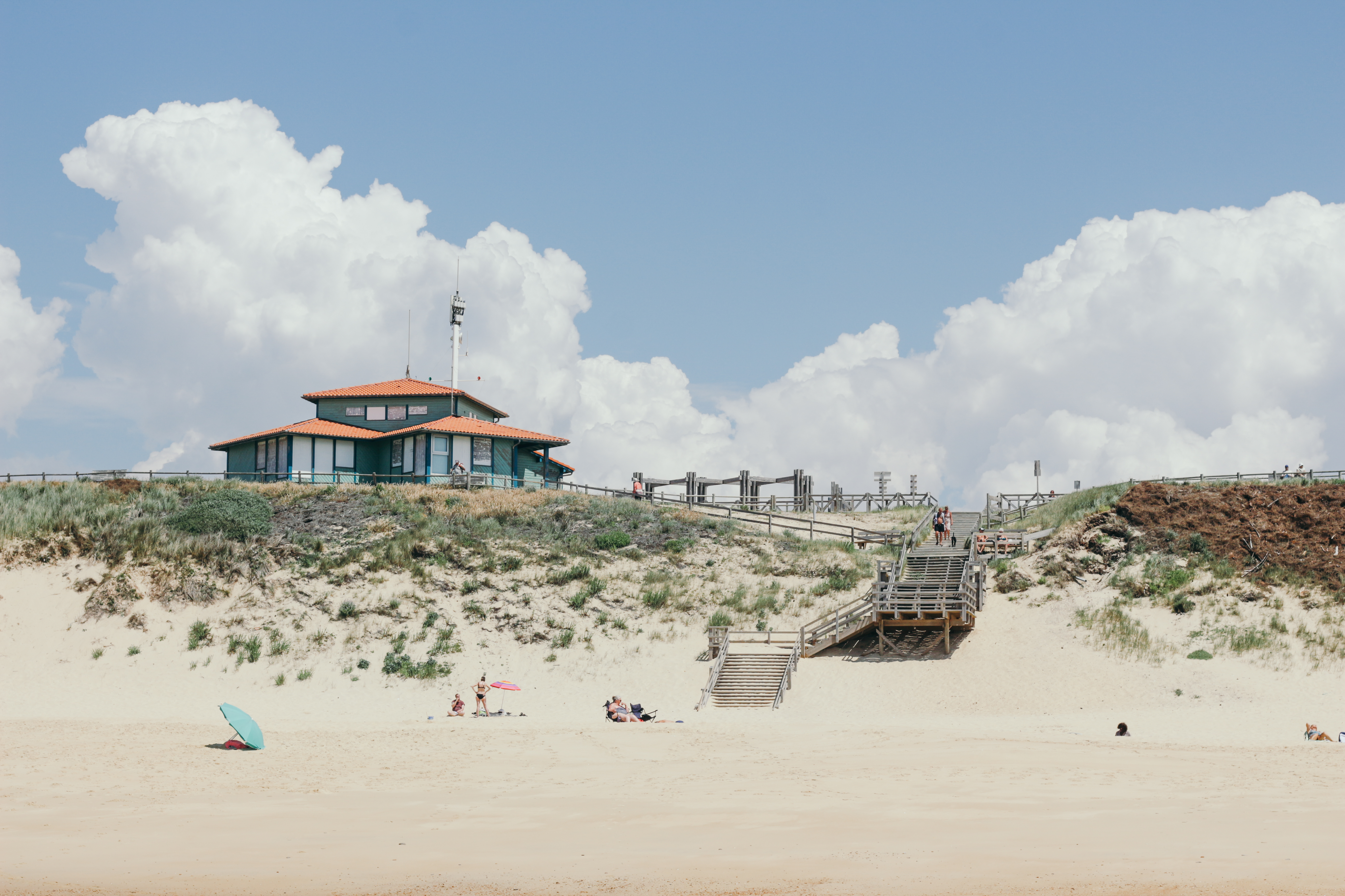 Plage du Cap de l'Homy, Lit-et-Mixe, France